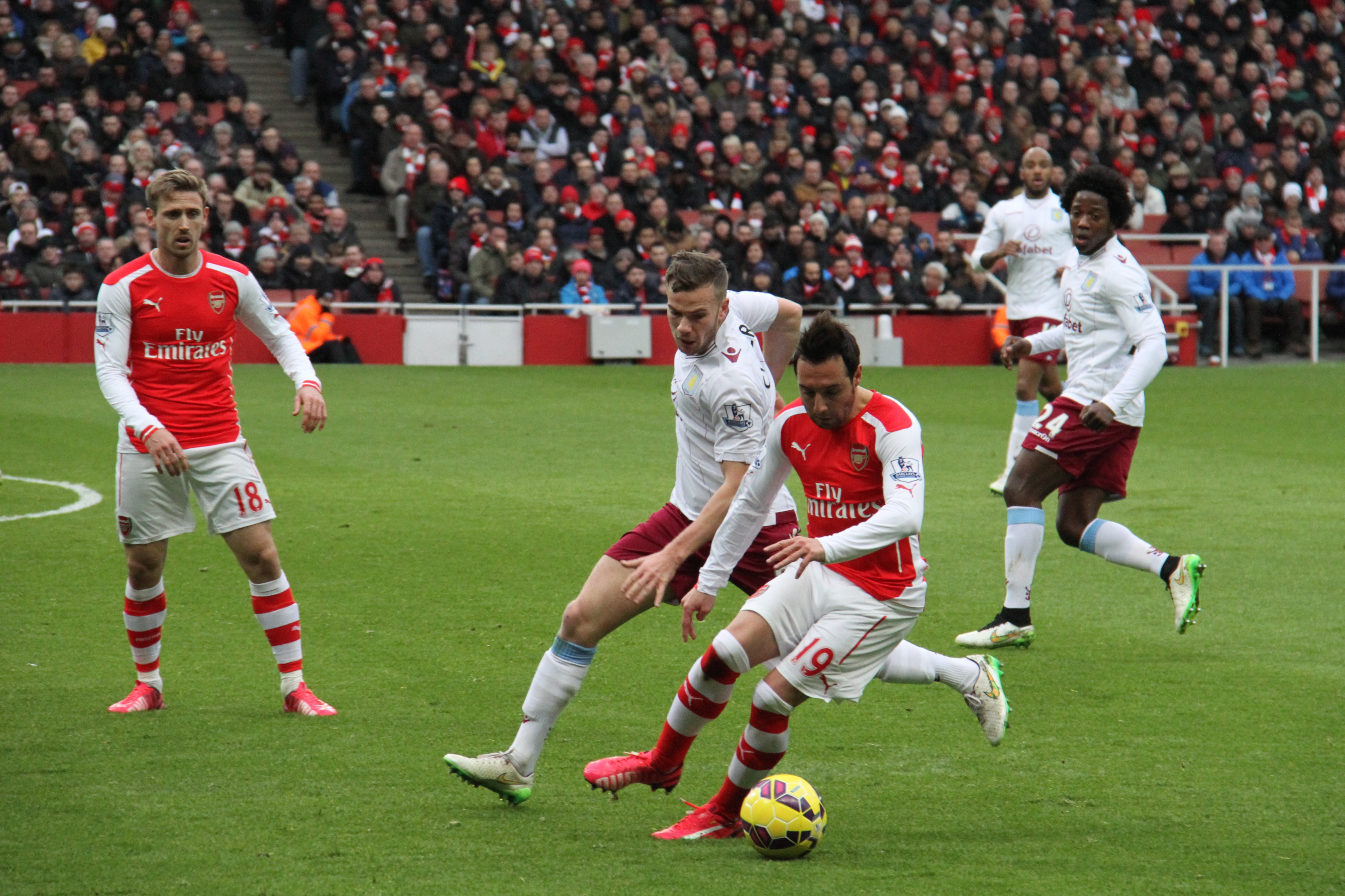 Santi Cazorla on the ball 1